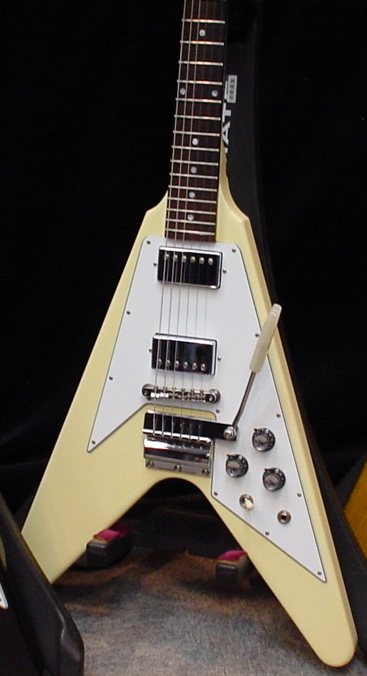 A derivative work of File:Gibson FlyingV.jpg, a Public Domain photo of three Gibson Flying V guitars. This is a cropped and modified version, just showing the middle guitar.